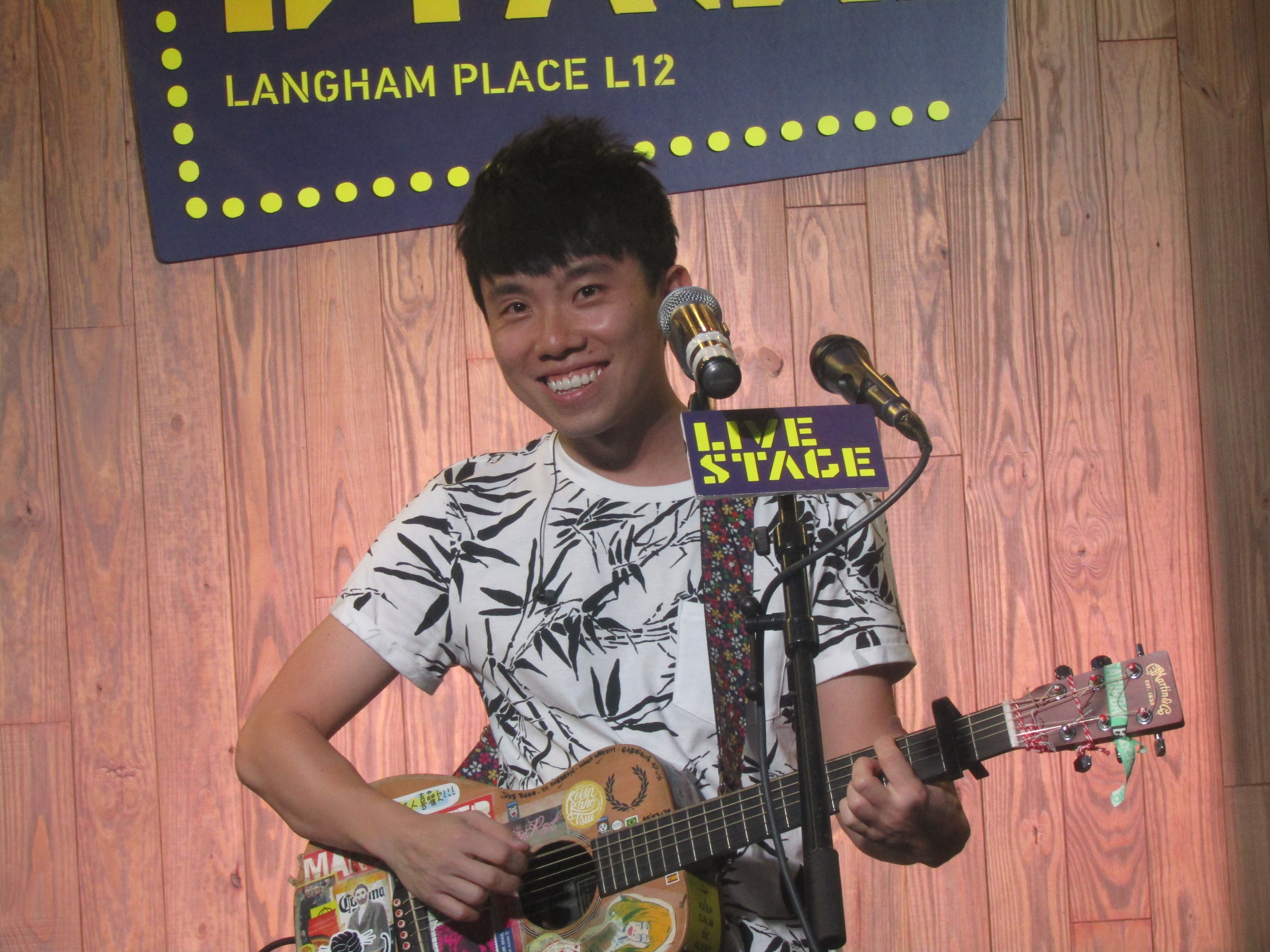 Kevin Kaho Tsui is singing at Langham Place, Mong Kok